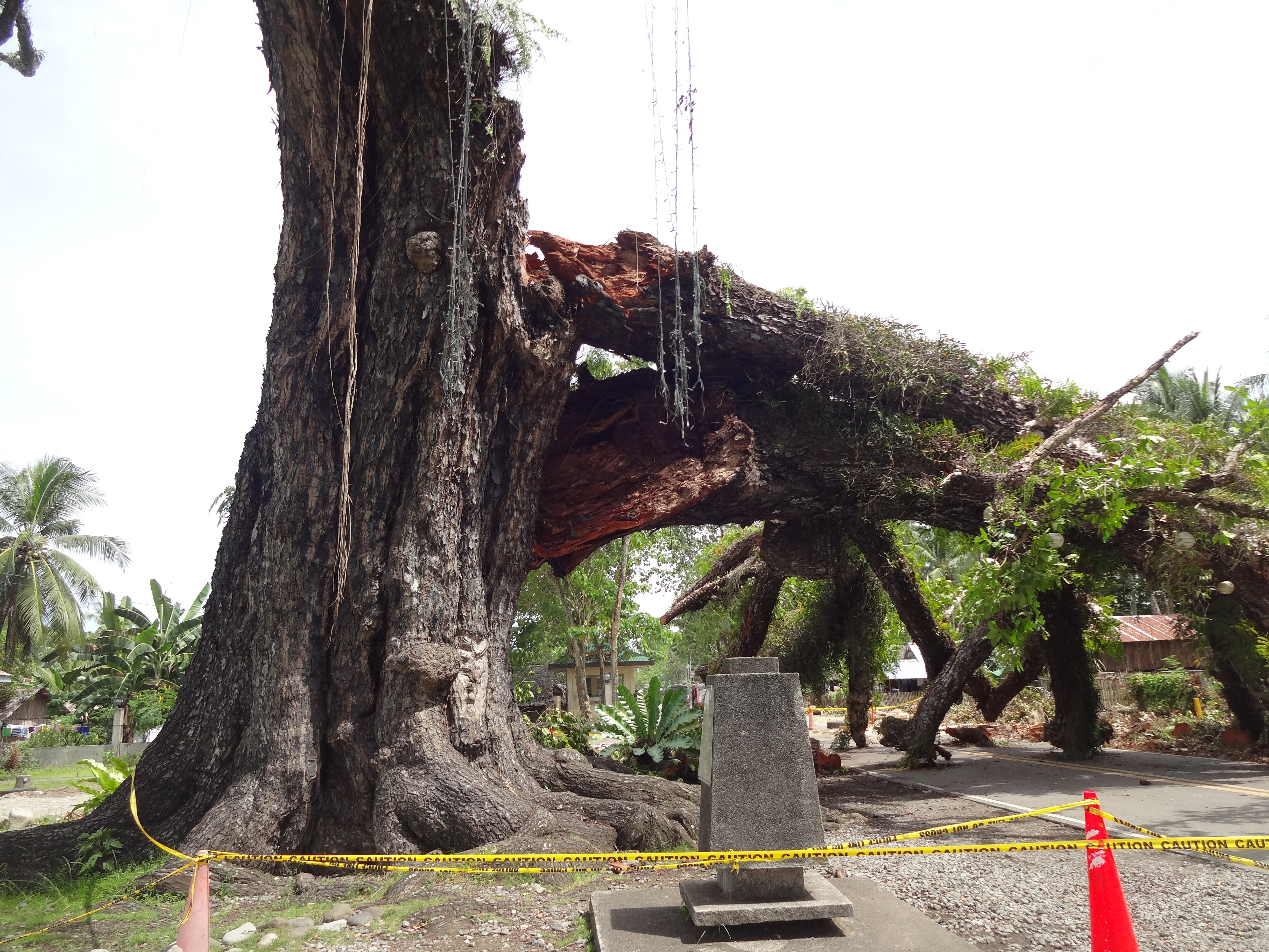 This is my own work. In June 3, 1998, the Philippine Centennial Commission declared the “Calophyllum Inophyllum” (also known as the Bitaog) as the "Philippine Centennial Tree", it is one of the oldest trees in the Philippines, which is more than 500 years old. In June 23, 2017 (according to rmn.ph), the large branches of the Centennial Tree was broke according to the residence near at the Centennial Tree and cause severe traffic earlier at the Brgy. Caloc-an, Magallanes, Agusan del Norte.